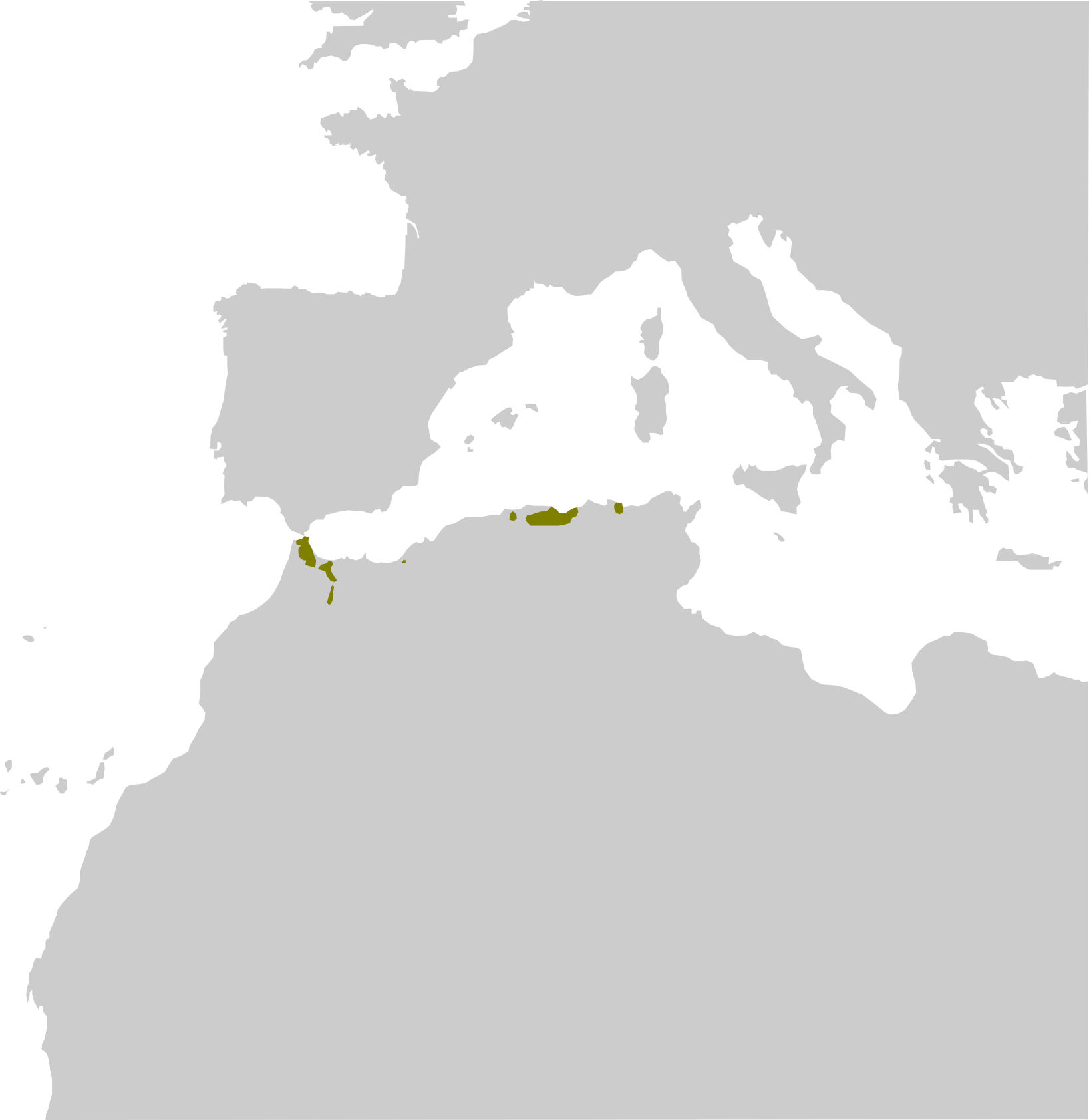 Salamandra algira distribution map.